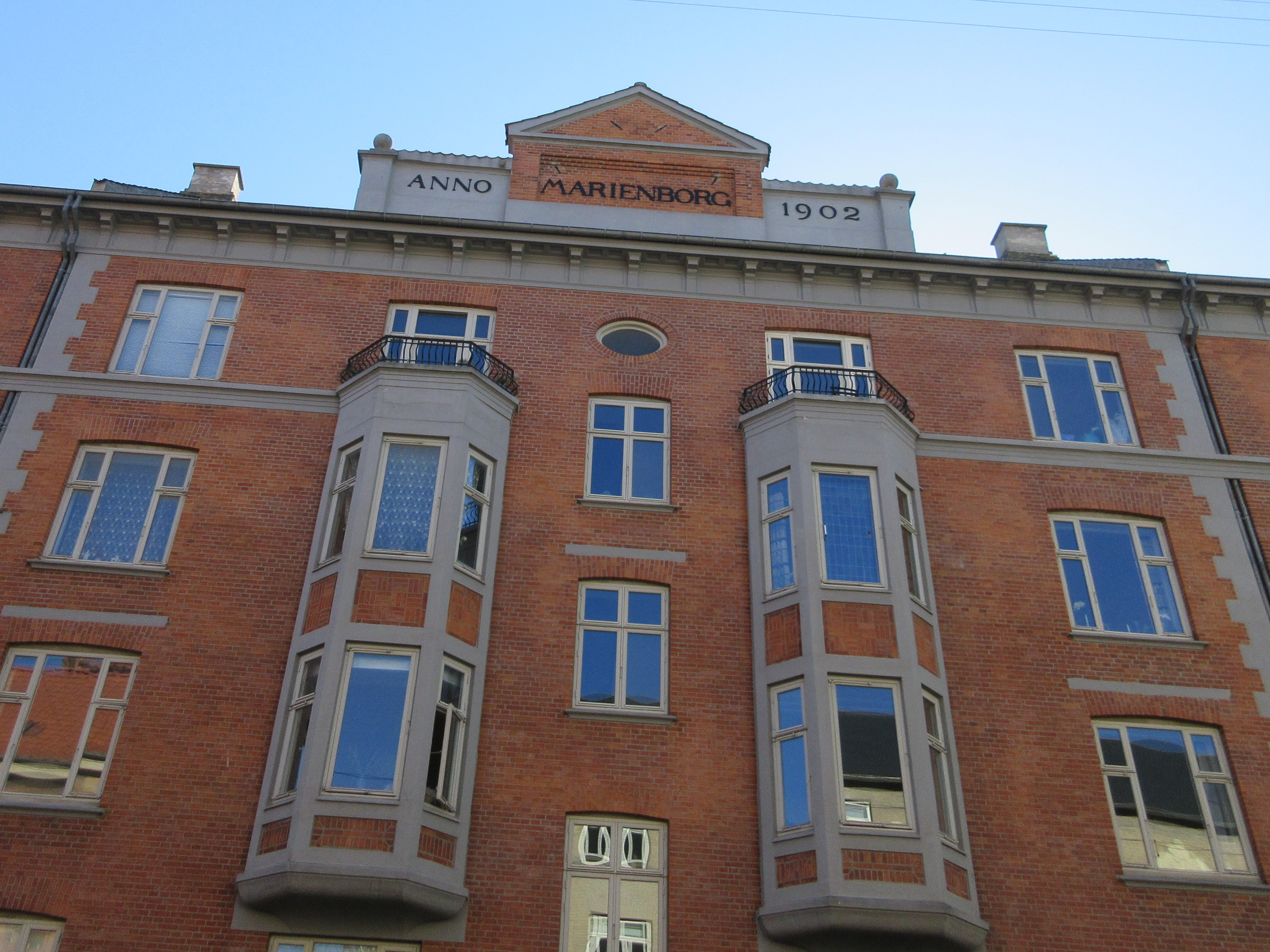 Mariendalsvej 33 in Frederiksberg, Denmark